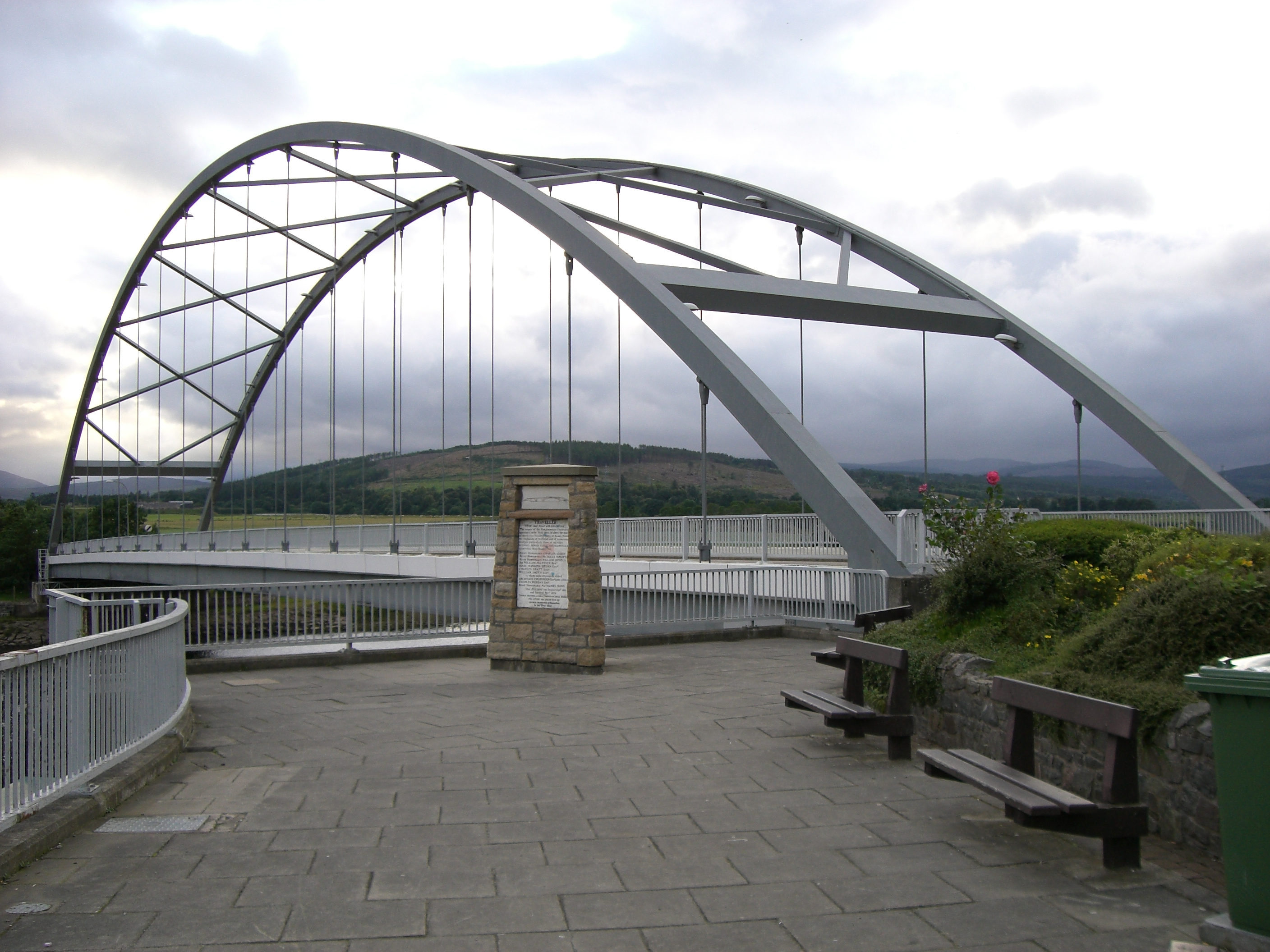 Third bridge at Bonar Bridge